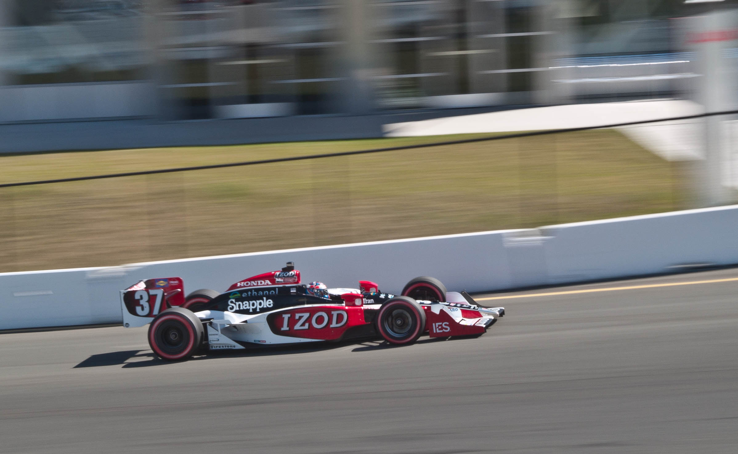 Ryan Hunter-Reay driving the Dallara IR5 for Andretti Autosport at the 2010 Indy Grand Prix of Sonoma. Round 13 of the 2010 IndyCar Series.